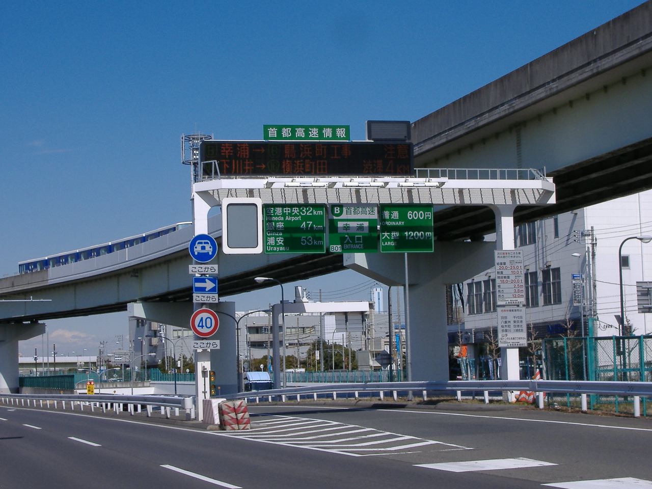 Shuto-EXPWAY,SachiuraEntrance (Yokohama, Japan)